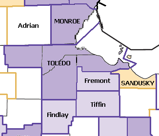 Images and their displayed information are taken from the US Census ([1] and from [2])